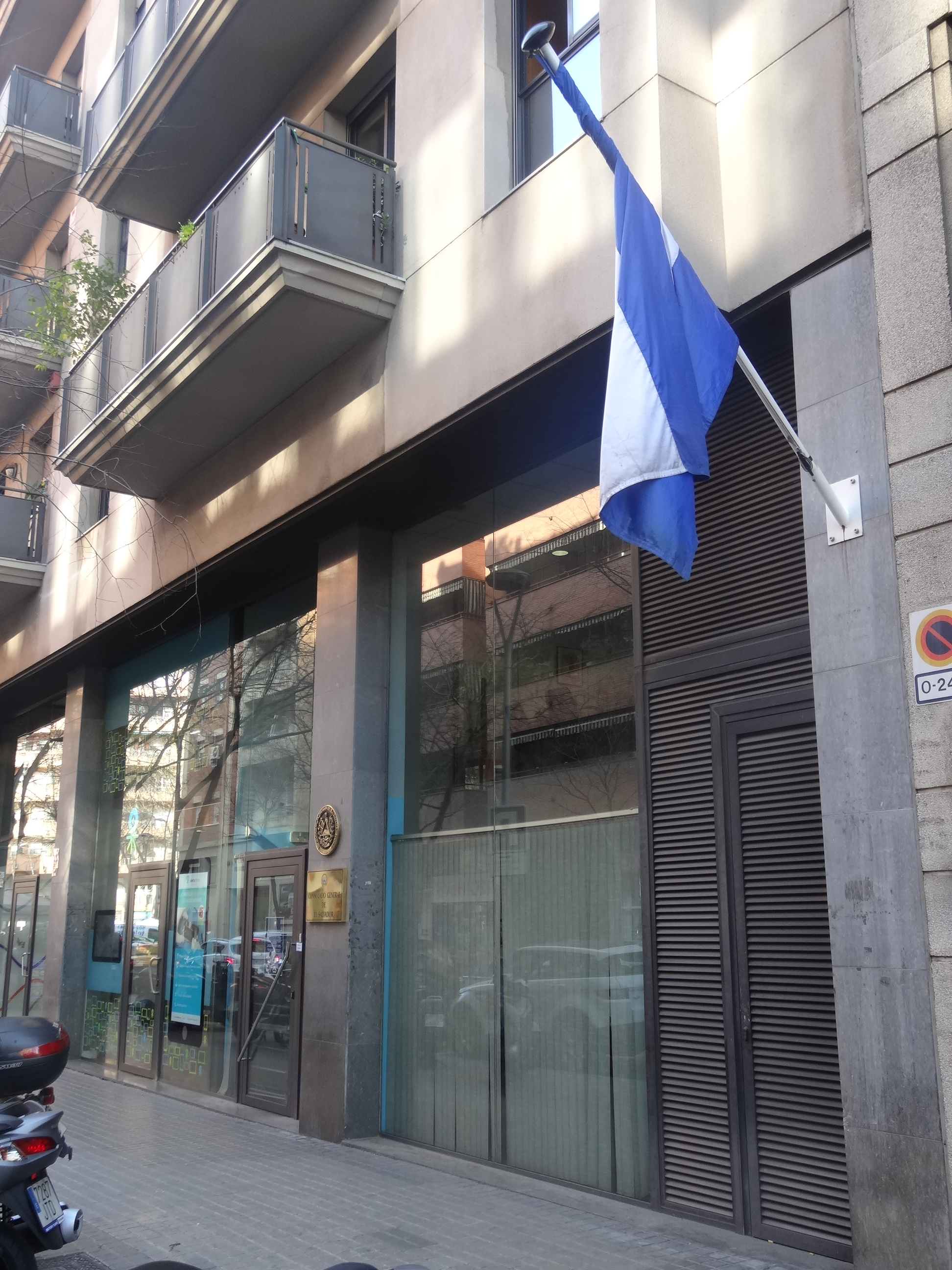 Salvadorean Consulate, Barcelona